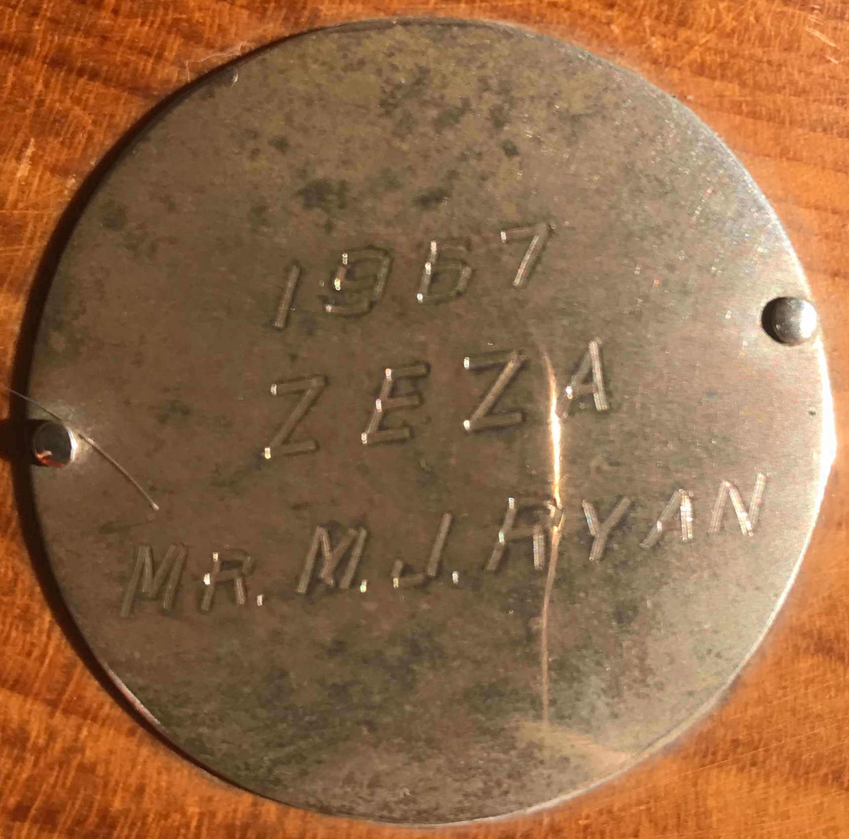 Patch on the Trophy